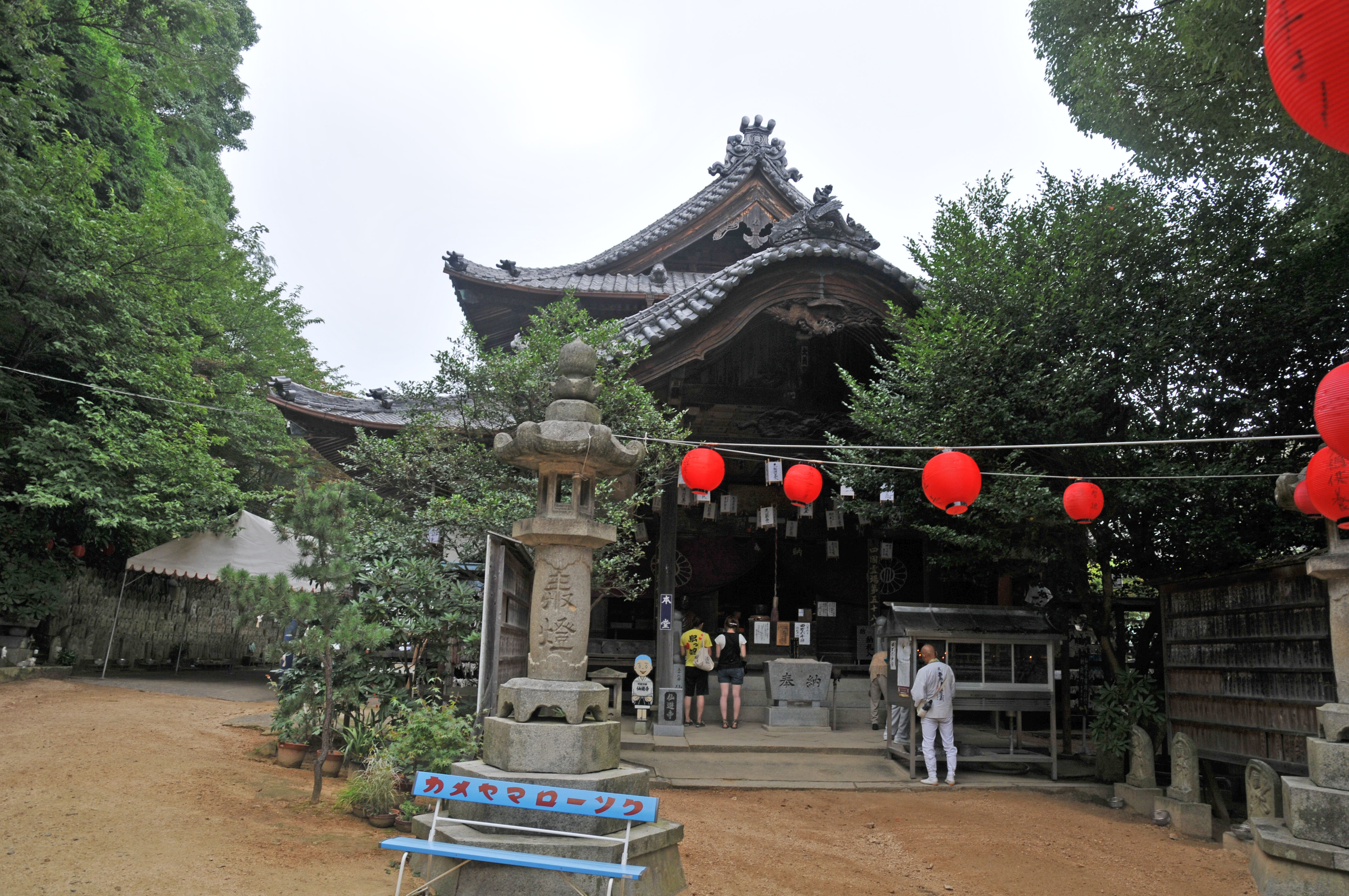 Main temple, Sen'yū-ji